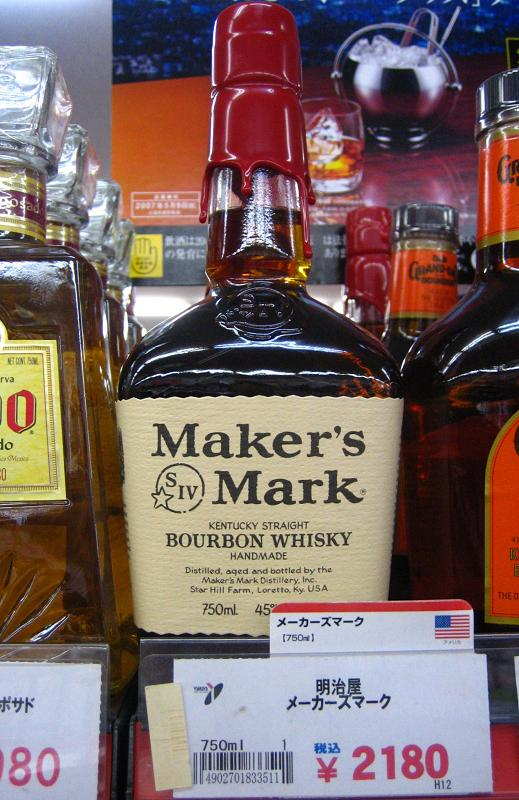 A bottle of Maker's Mark bourbon whisky for sale at a liquor store in Iizaka, Fukushima Prefecture, Japan. Picture was taken with a Canon Power Shot SD450 Digital Elph camera and modified using a Paint Shop program on a laptop computer.